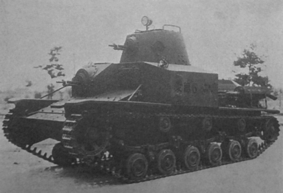 Imperial Japanese Army Type 92 heavy armoured car.